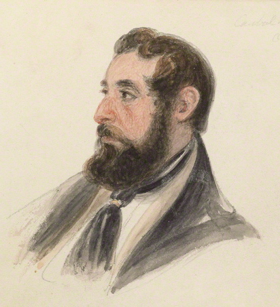 Arthur Conolly. watercolour, 9 1/2 in. x 6 1/2 in. (241 mm x 165 mm)